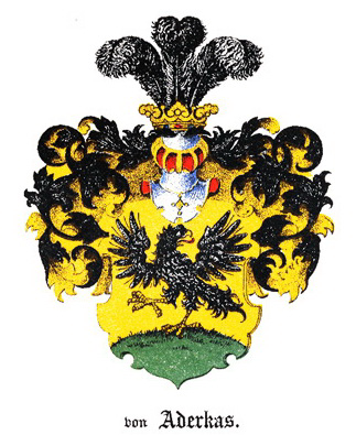 Coat of Arms of Aderkas family